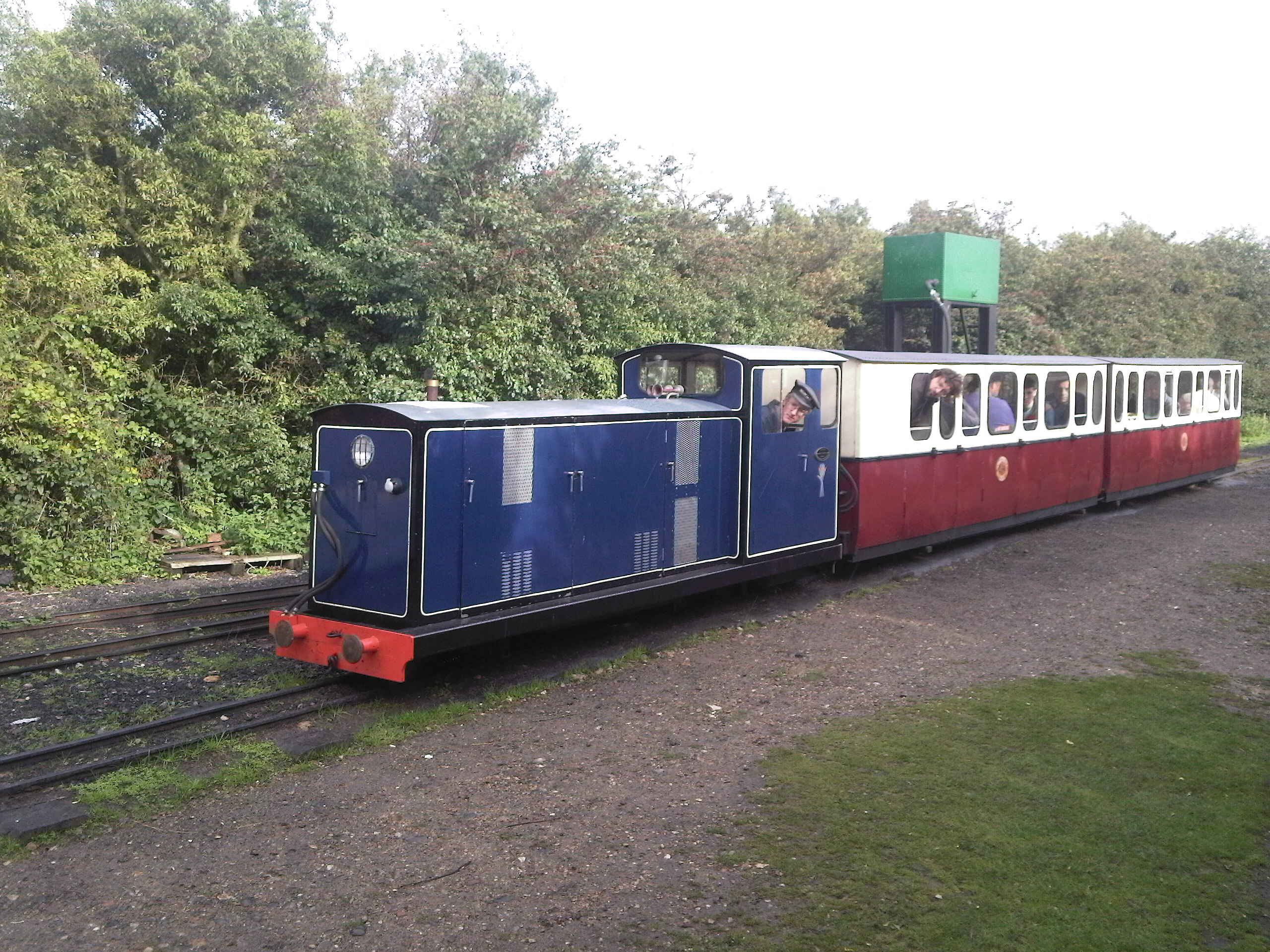 Diesel-hauled train arriving at Wells on the Wells and Walsingham Light Railway after the derailment of Norfolk Hero following vandalism on the line, September 2008